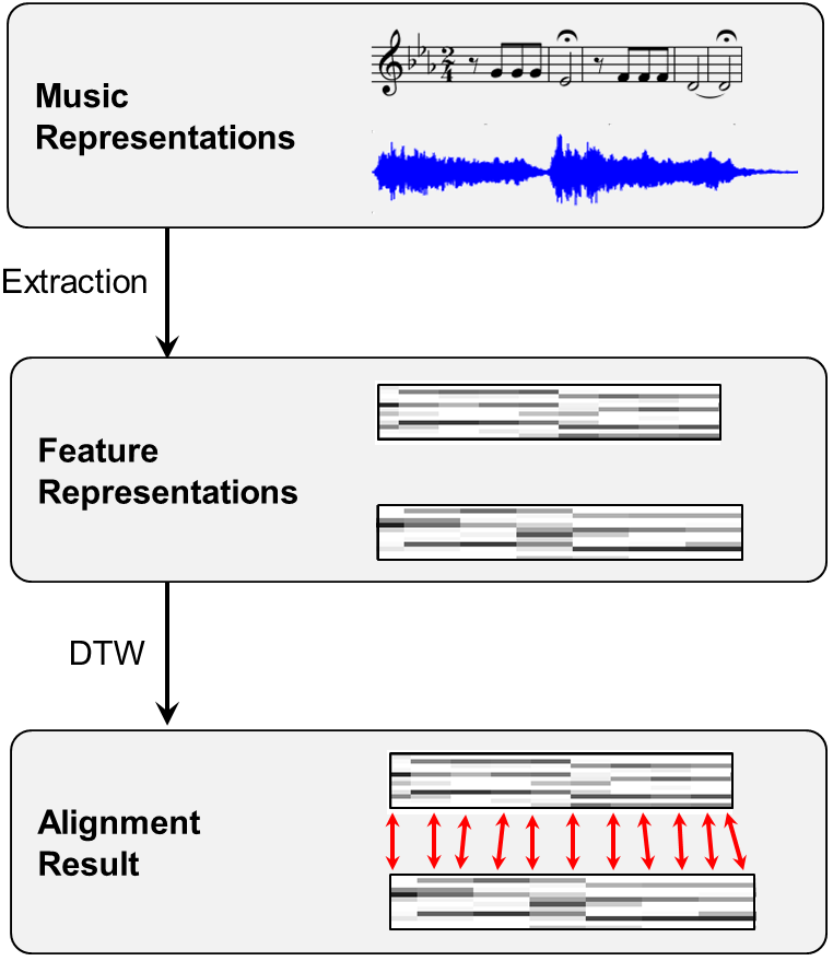 Music alignment procedure example